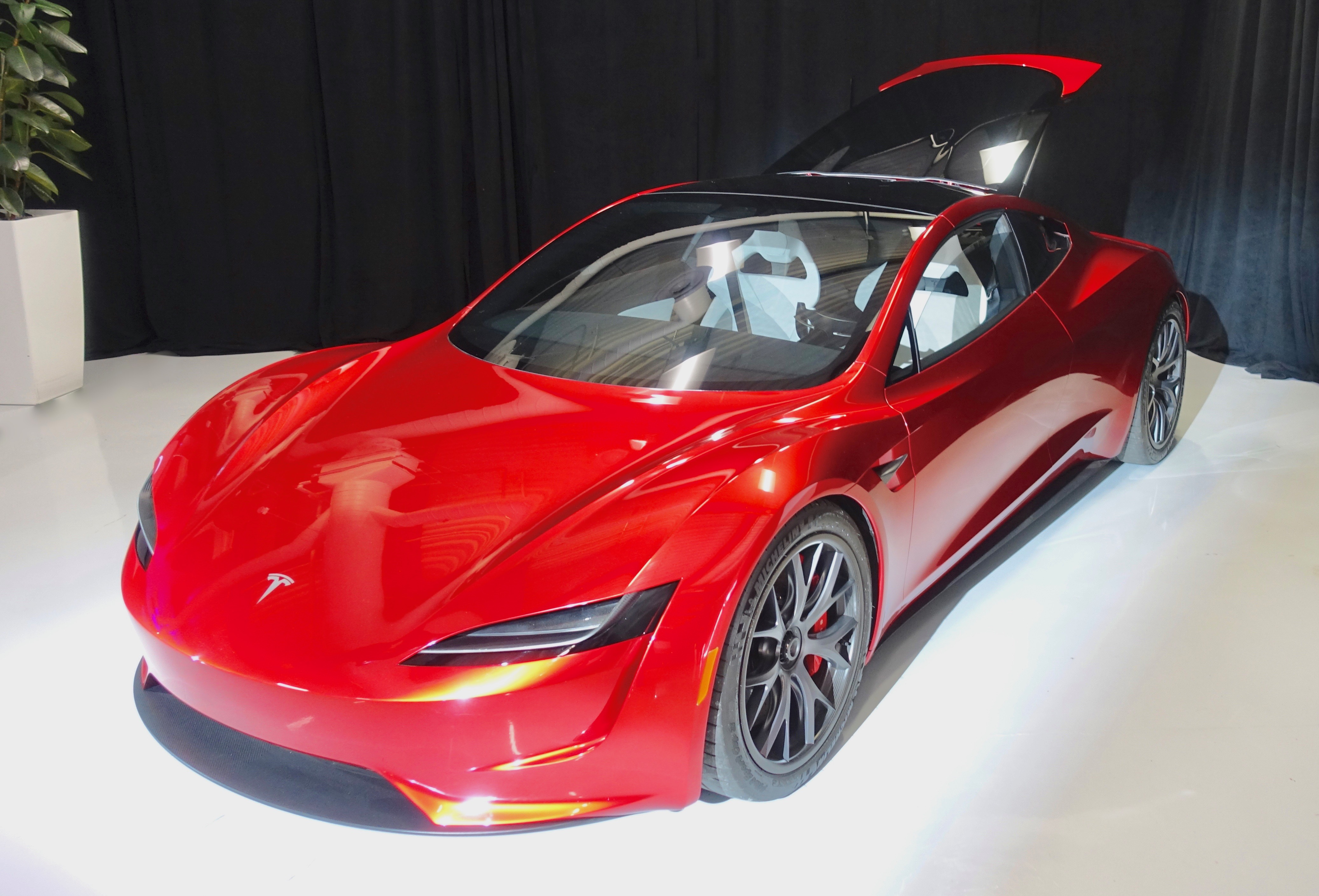 At Tesla HQ today